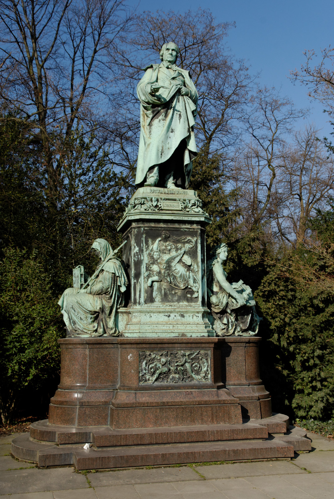 Statue for Peter von Cornelius in Düsseldorf-Stadtmitte, Germany